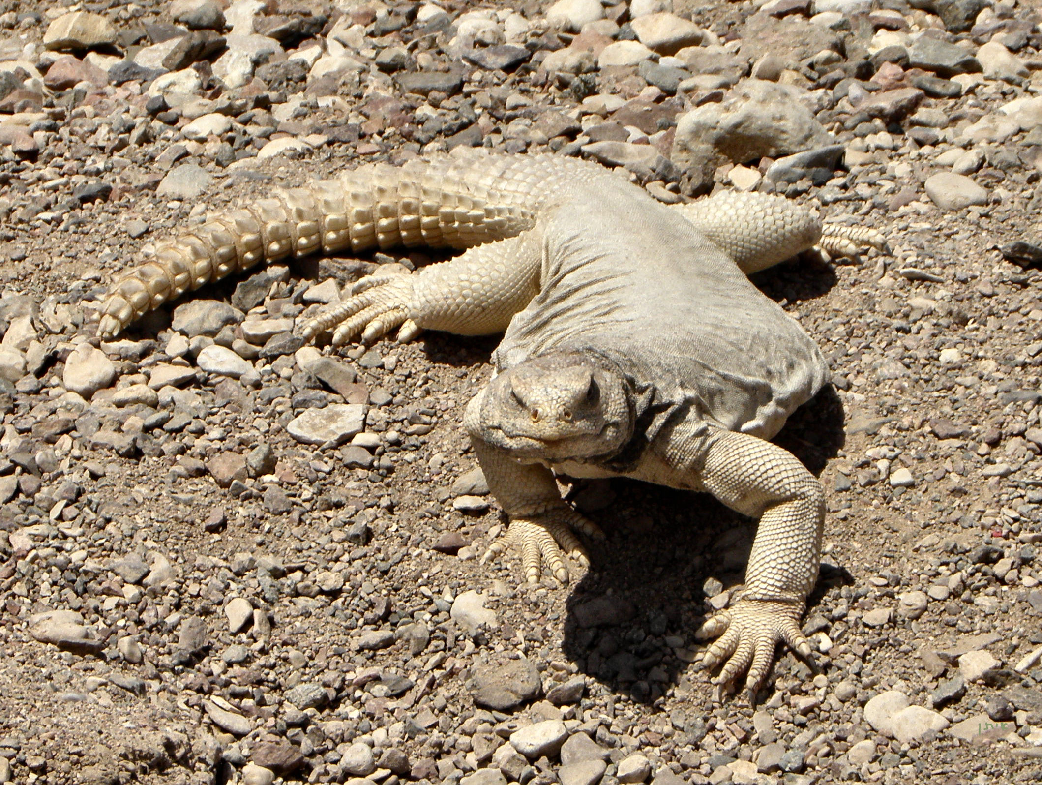 Uromastyx aegyptia - Egyptian Mastigure (Eilat)